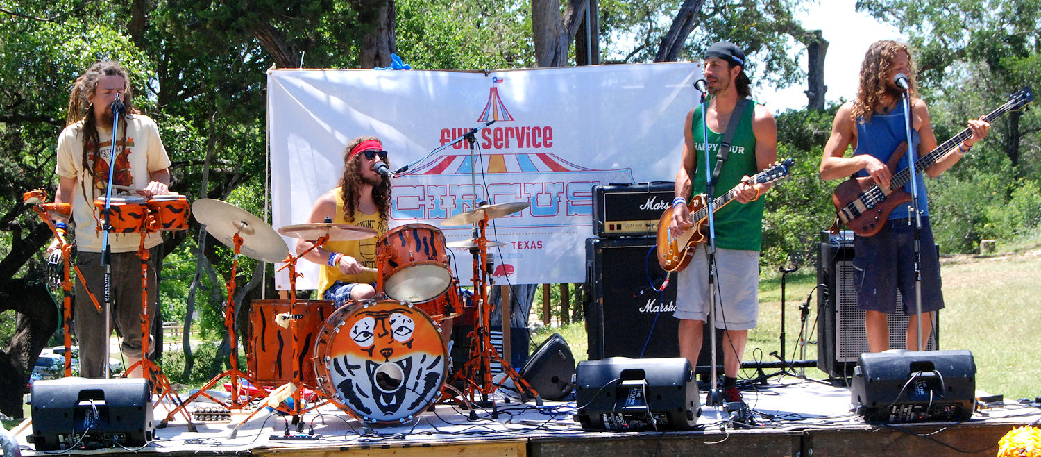 Full Service during the Full Service Circus at Zilker Park in Austin, TX. (L to R) Smell, Hoag, Bonesaw & Sunny.